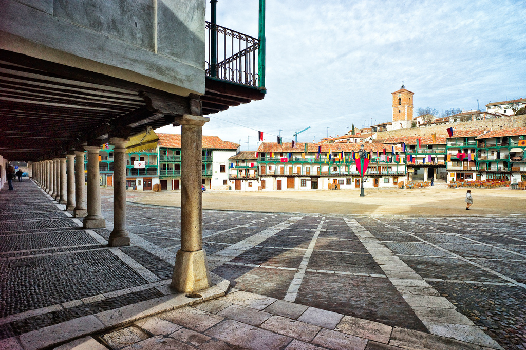 Main Plaza of the town of Chinchón. This photograph can be used for publications, including this copyright statement: “©PromoMadrid, author Alfredo Urdaci”. Esta fotografía puede usarse en publicaciones, incluyendo la declaración “©PromoMadrid, autor Alfredo Urdaci”.